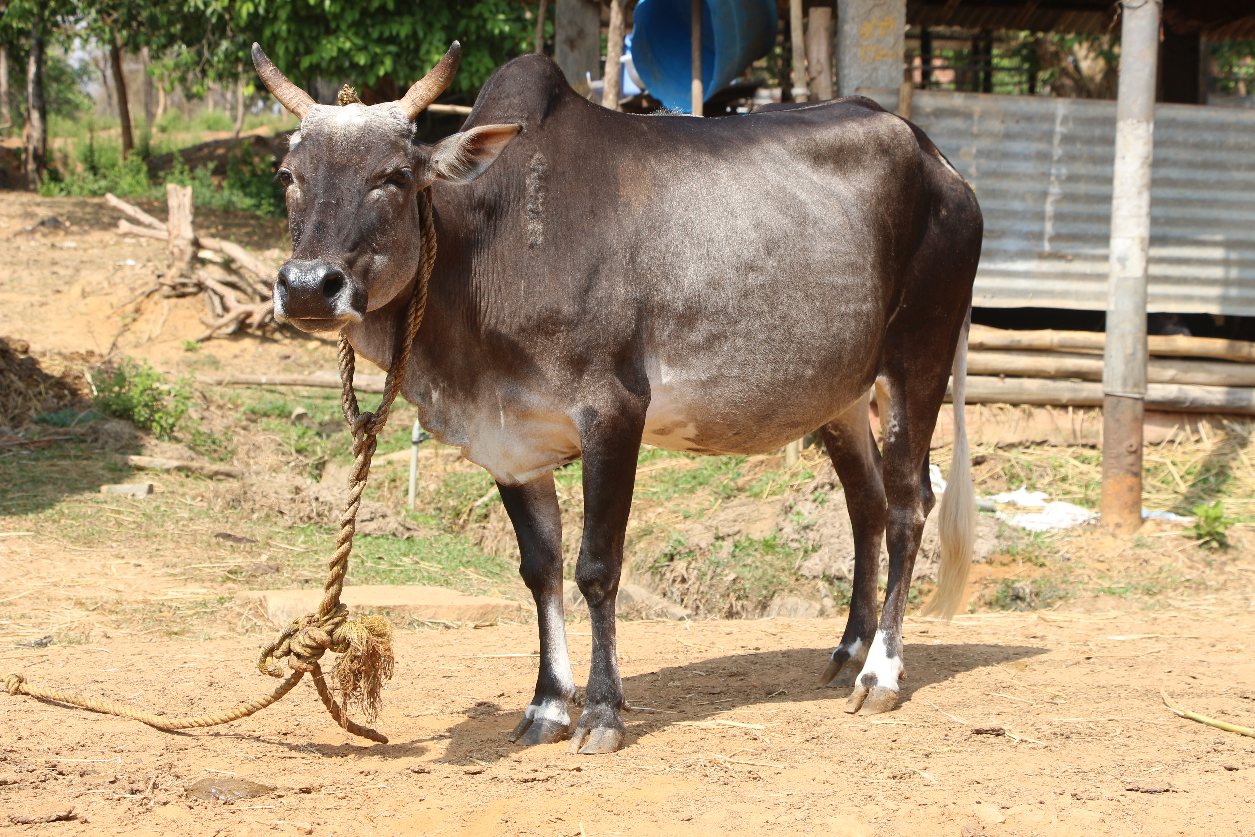 Indian cow breed Amblacheriಕನ್ನಡ: ಭಾರತೀಯ ಗೋತಳಿ ಅಂಬ್ಲಾಚೆರಿ